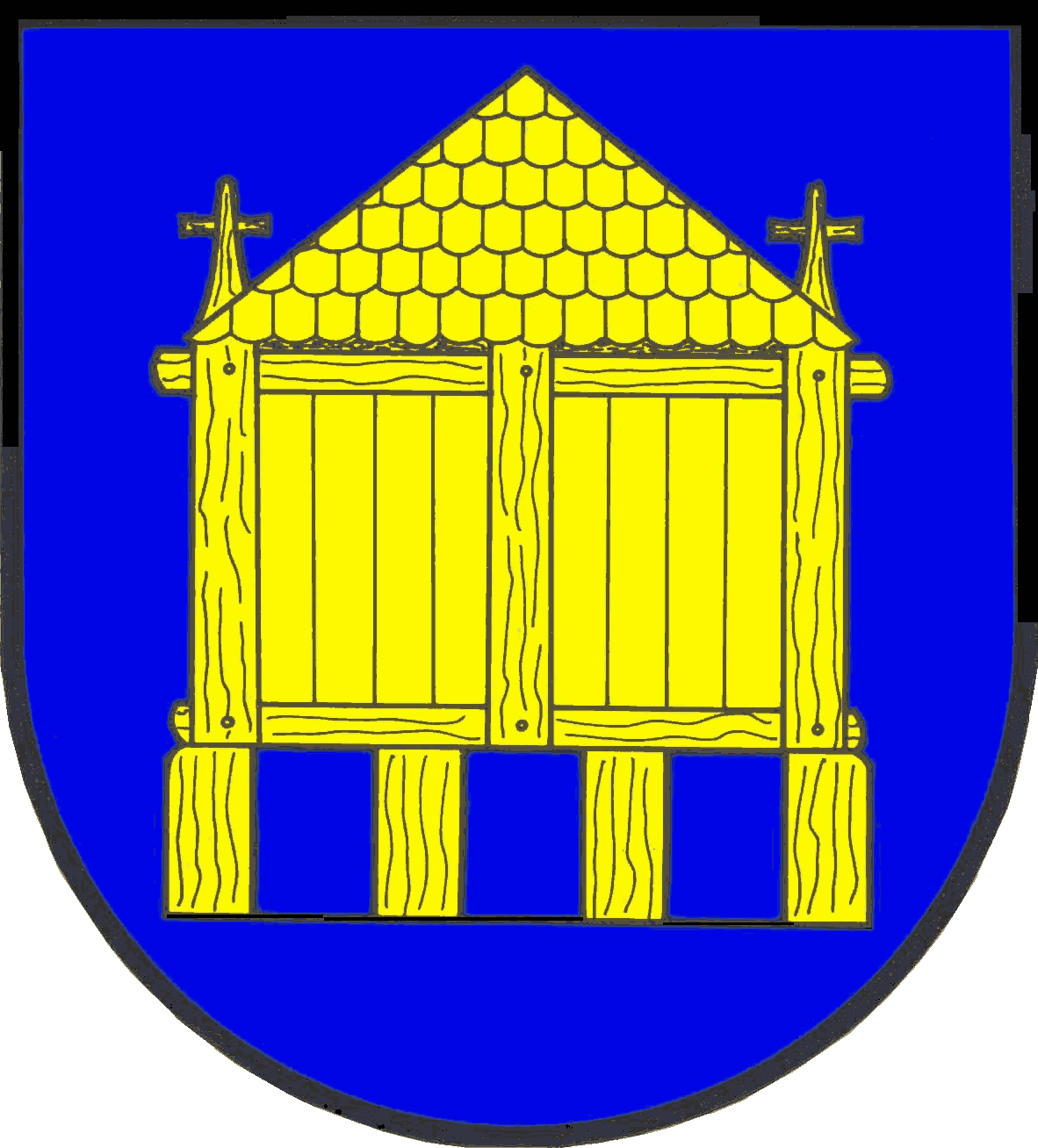 Coat of arms of the municipality Husby in Schleswig-Holstein, Germany.